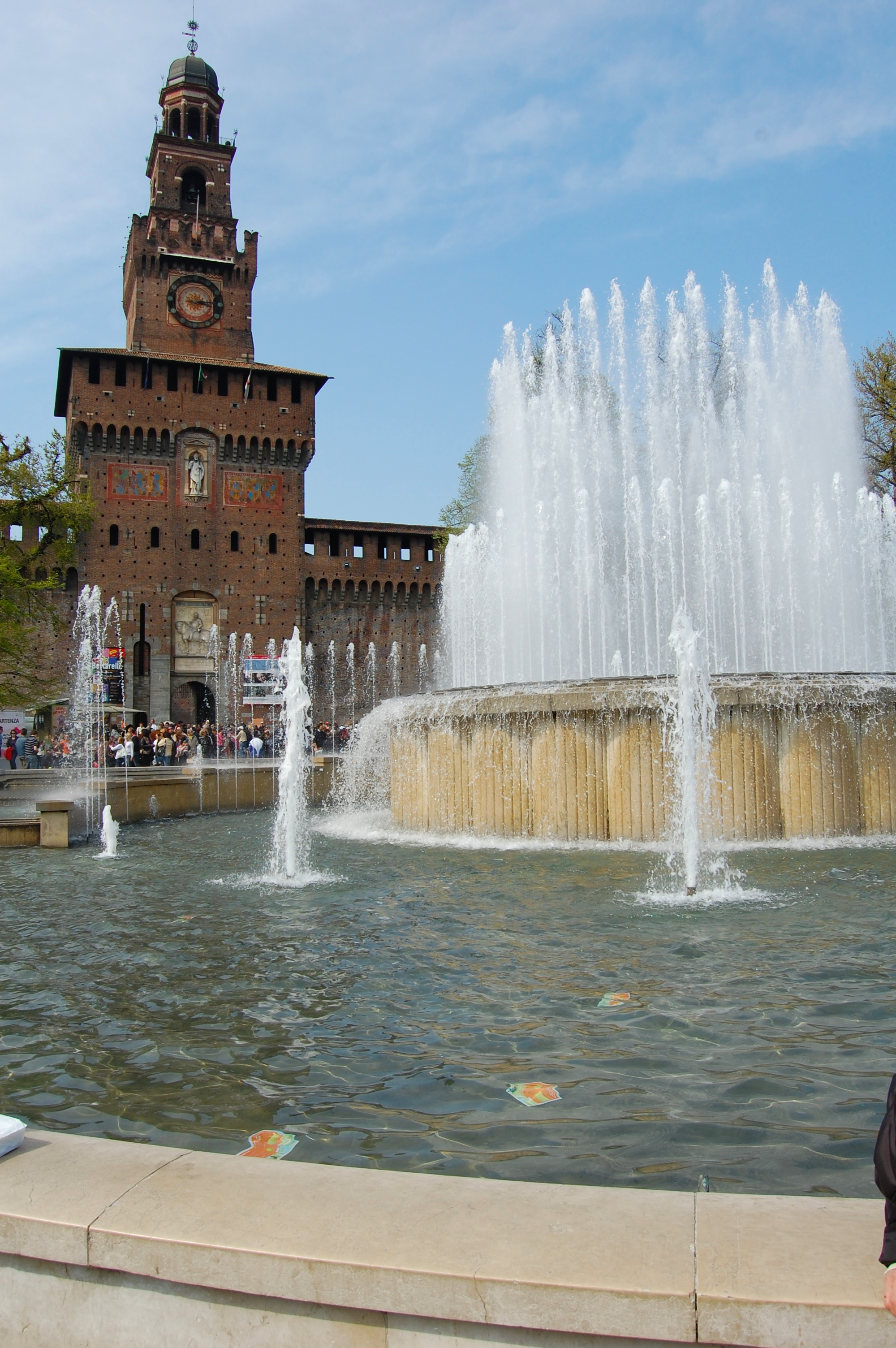 The fountain facing the Castello sforzesco ("Sforza's castle") in Milan, (Italy).